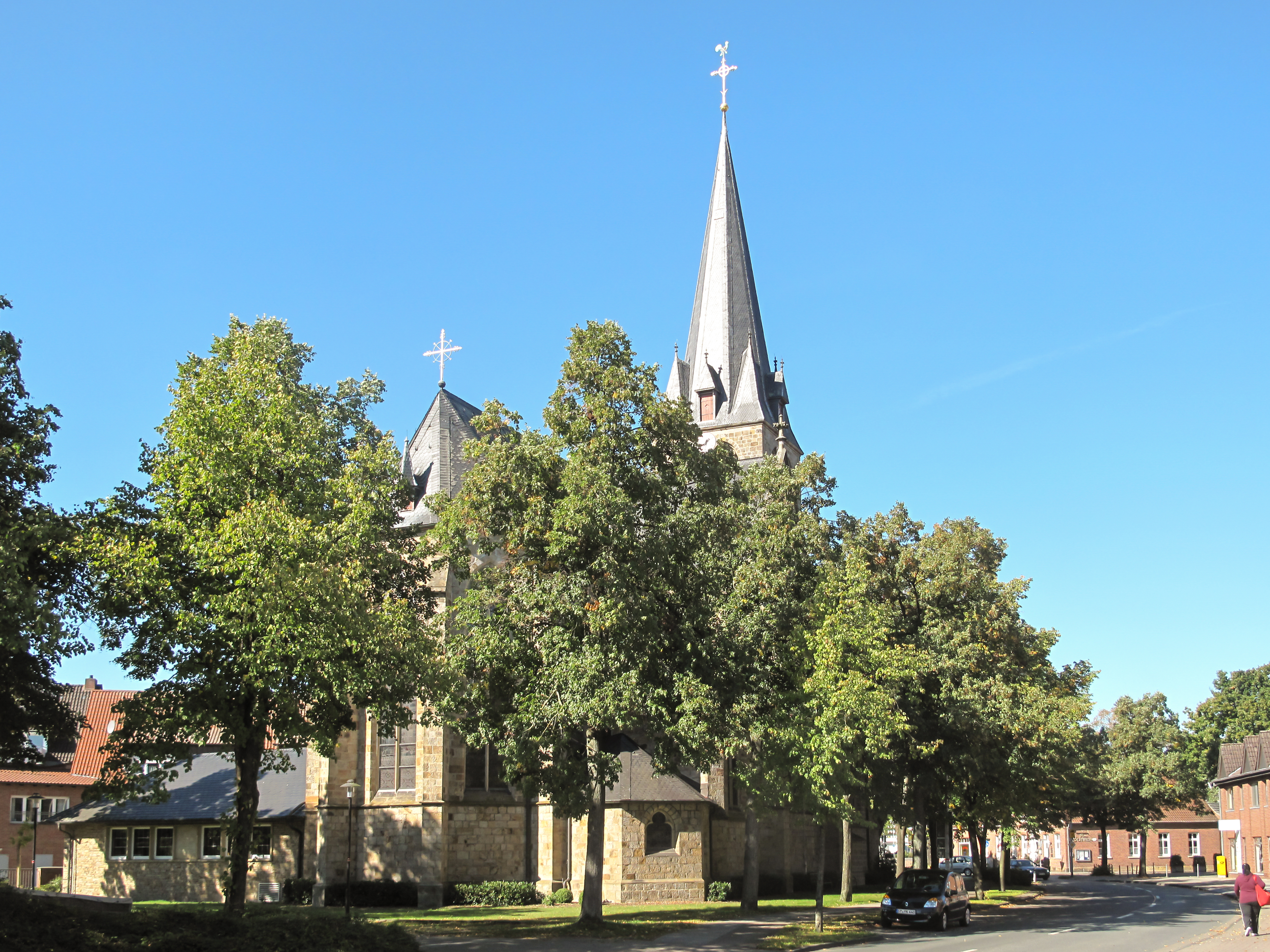 Mesum, church: katholische Pfarrkirche Sankt Johannes Baptist This is a photograph of an architectural monument.